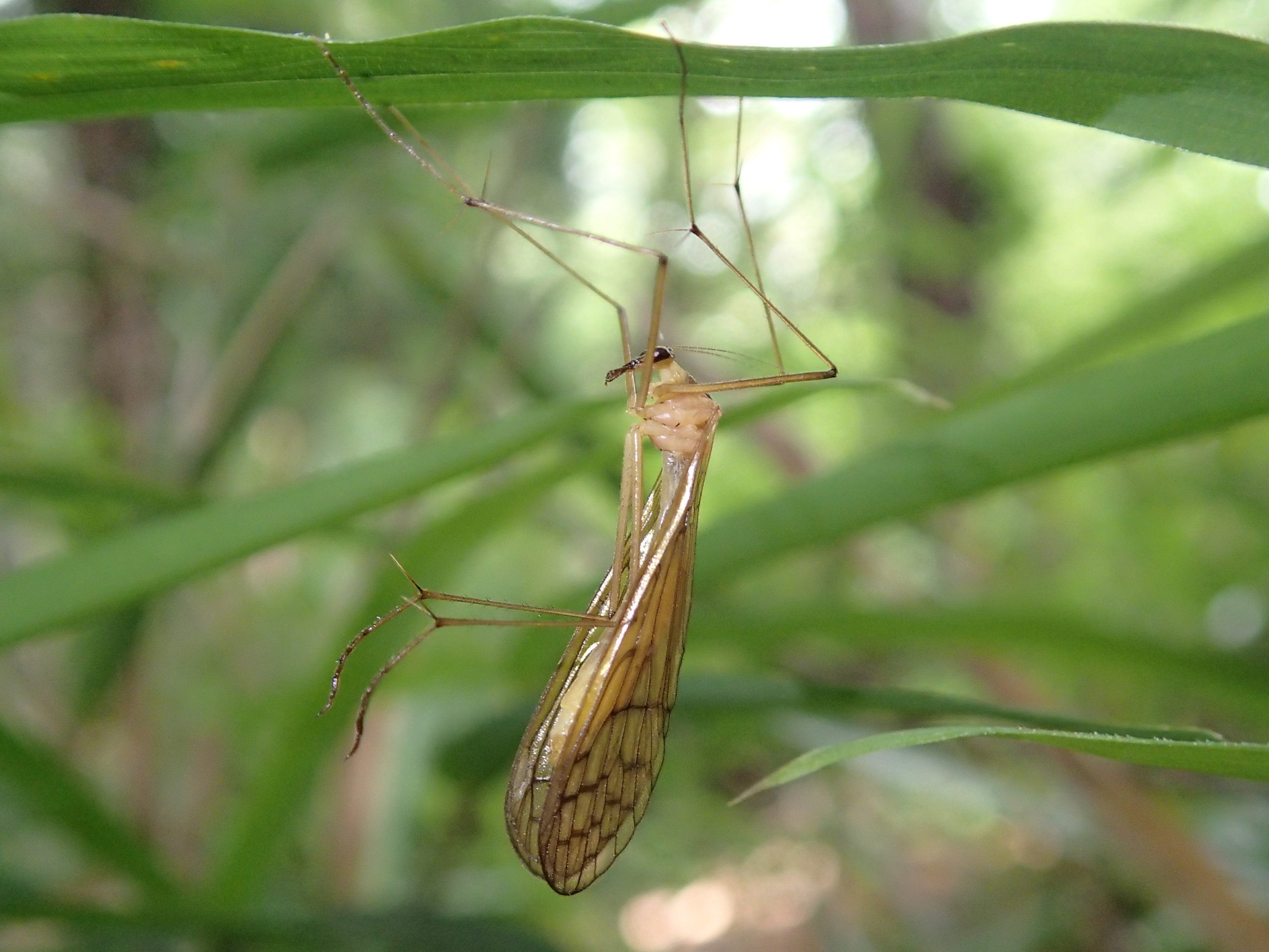 Bittacus nipponicus Navás, 1909 (Mecoptera: Bittacidae). Yokohama, Kanagawa, Japan.